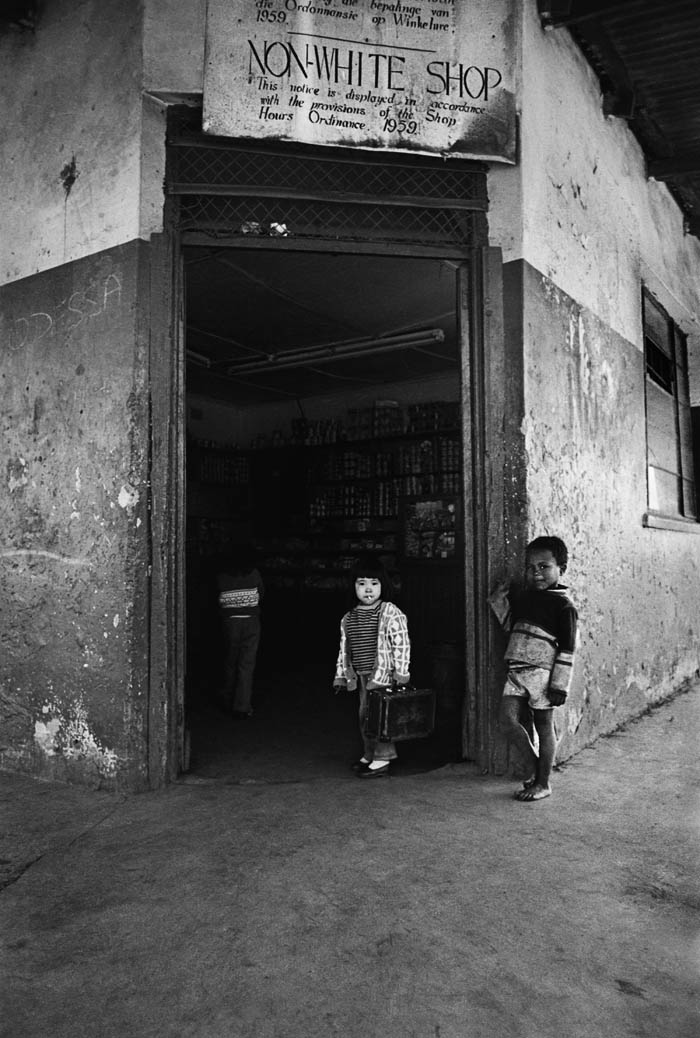 Kliptown, Johannesburg, 1979. Part of the collection from Paul Weinberg that makes up the photographic book Travelling Light and was also part of the Then and Now exhibition at Duke University. Shop sign: NON-WHITE SHOPThis notice is displayed in accordancewith the provisions of the ShopHours Ordinance. 1959.